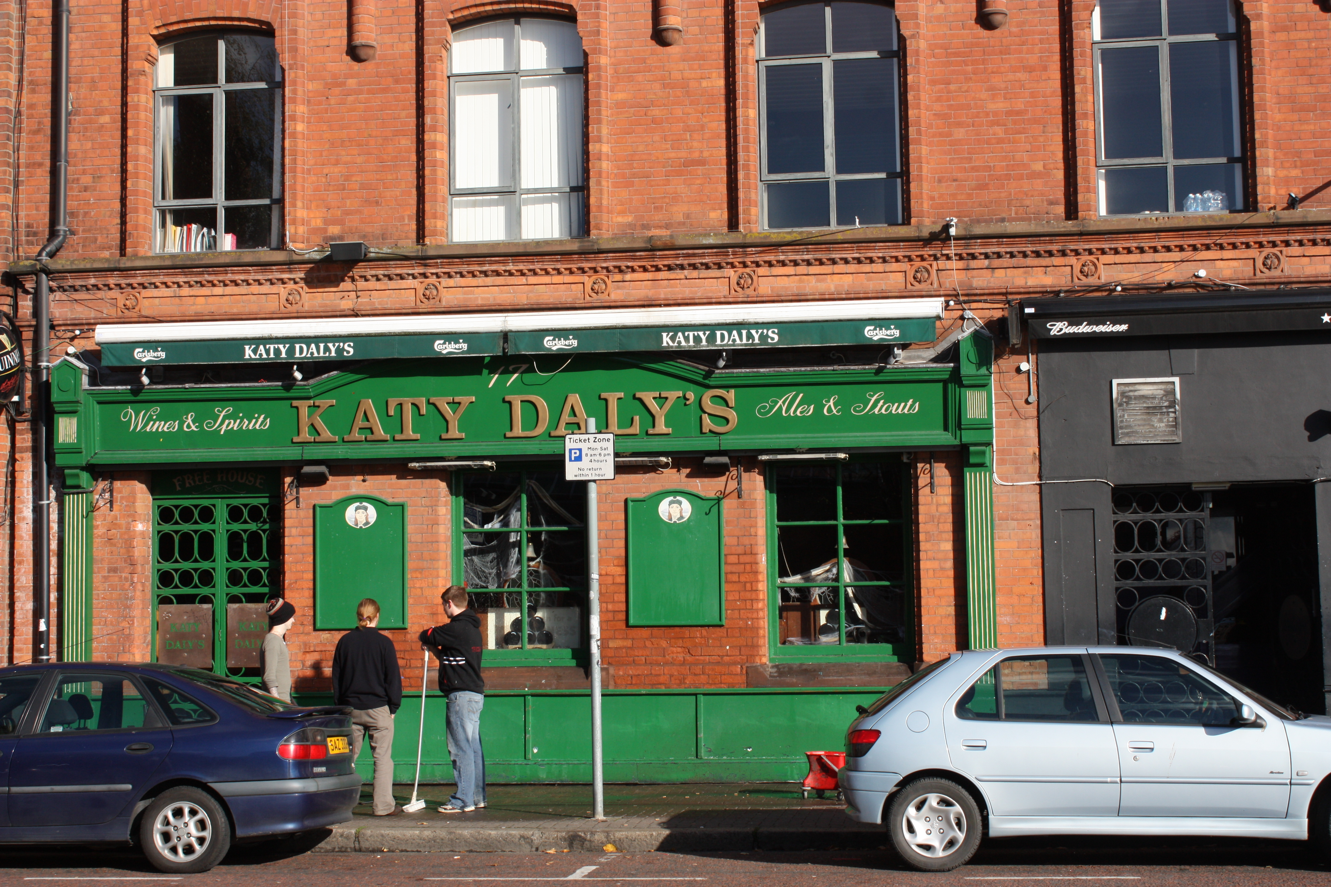 Katy Daly's pub, Ormeau Avenue, Belfast, Northern Ireland, October 2010